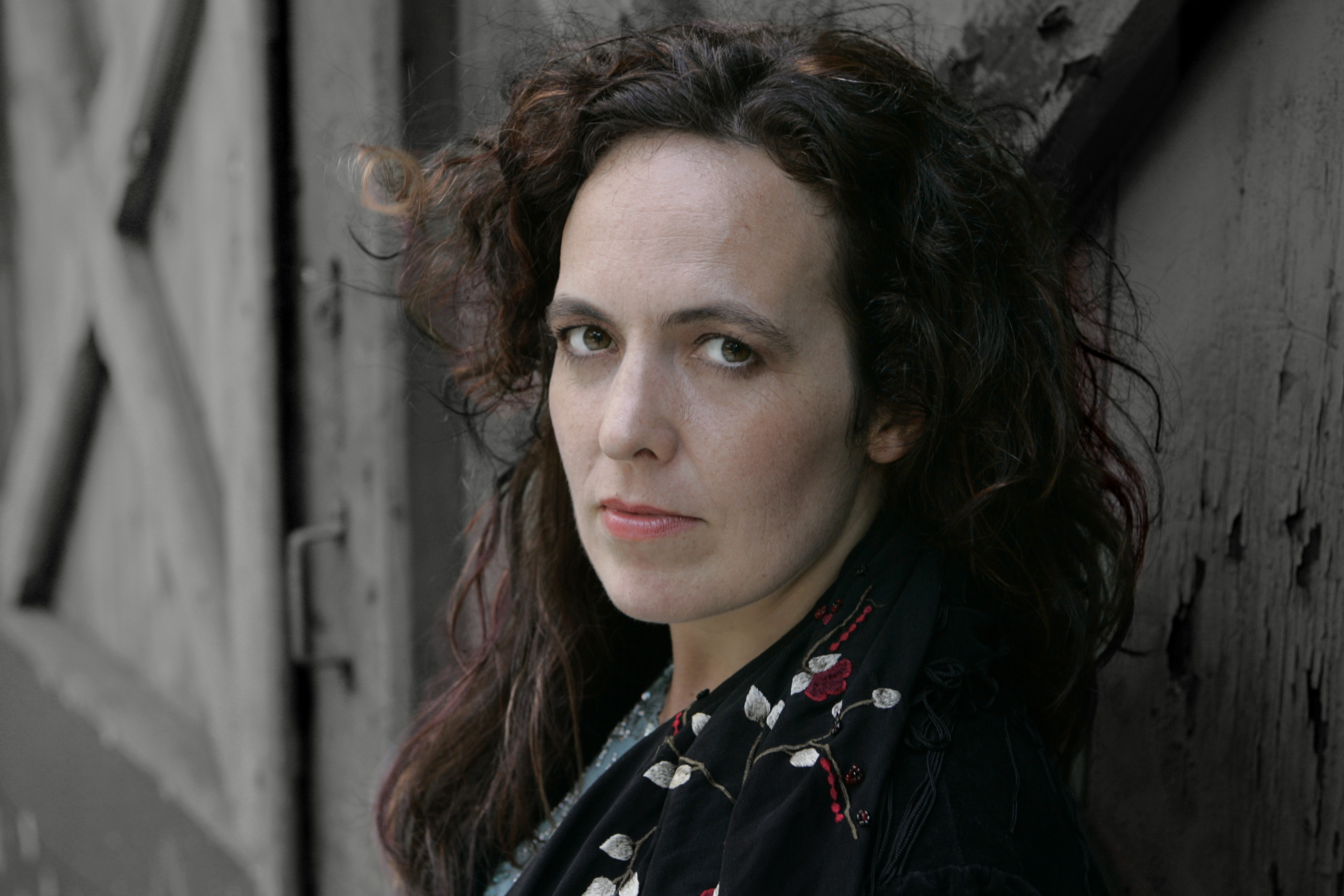 photo of Susan McKeown